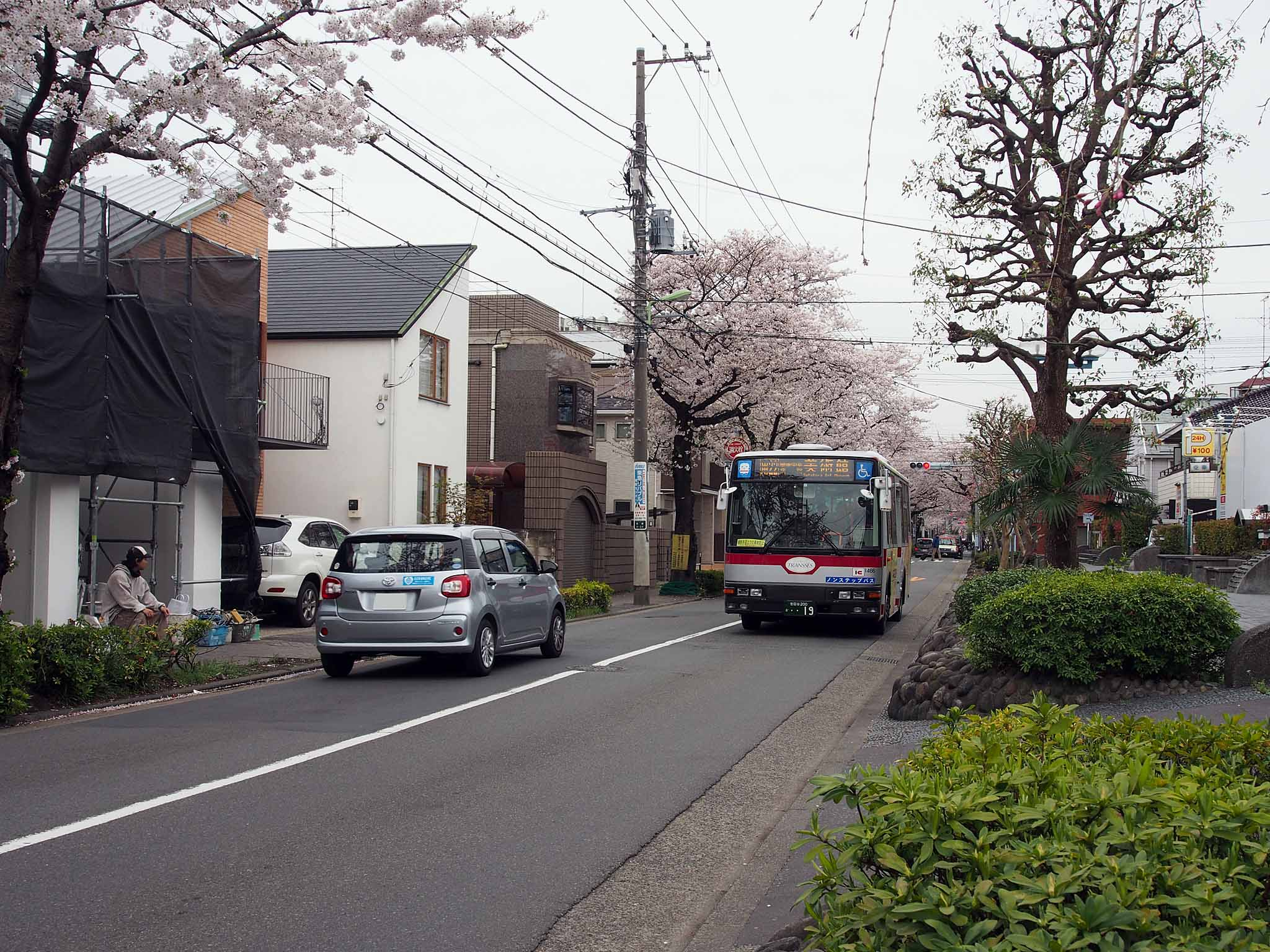 Tokyu Bus Yoga 22 Route "Setagaya Art Museum Line" in Yoga Promnade. Model: Mitsubishi Fuso Aero Midi MK27FH License plate: TKG200 KA0019